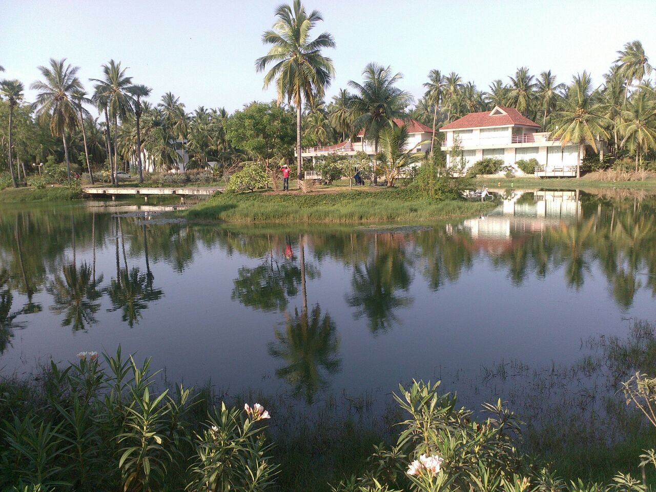 Palavelli Boutique Resorts lake view